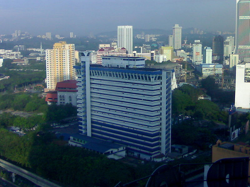 Taken by me from a hotel room in Berjaya Times Square. A better picture would be nice, since I took it at the wrong time (the police HQ is covered by Berjaya Times Square's shadow) (RELEASED).